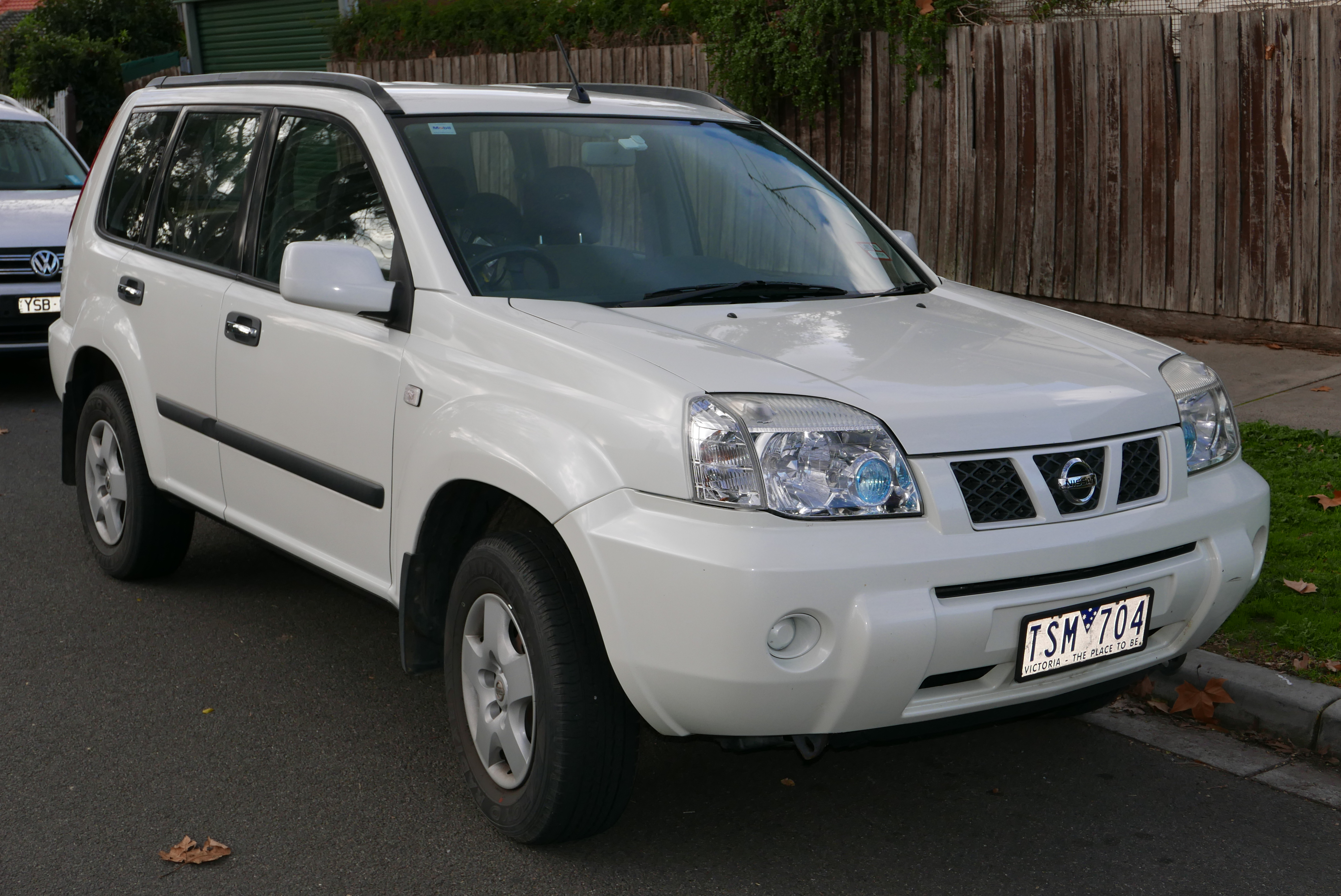 2005 Nissan X-Trail (T30 II) ST wagon. Photographed in Northcote, Victoria, Australia. Vehicle registration enquiry resultsJurisdictionVictoriaRegistrationTSM704Chassis codeJN1TBNT30A0105082Engine codeQR25309805ACompliance date2005-08Year of manufacture2005